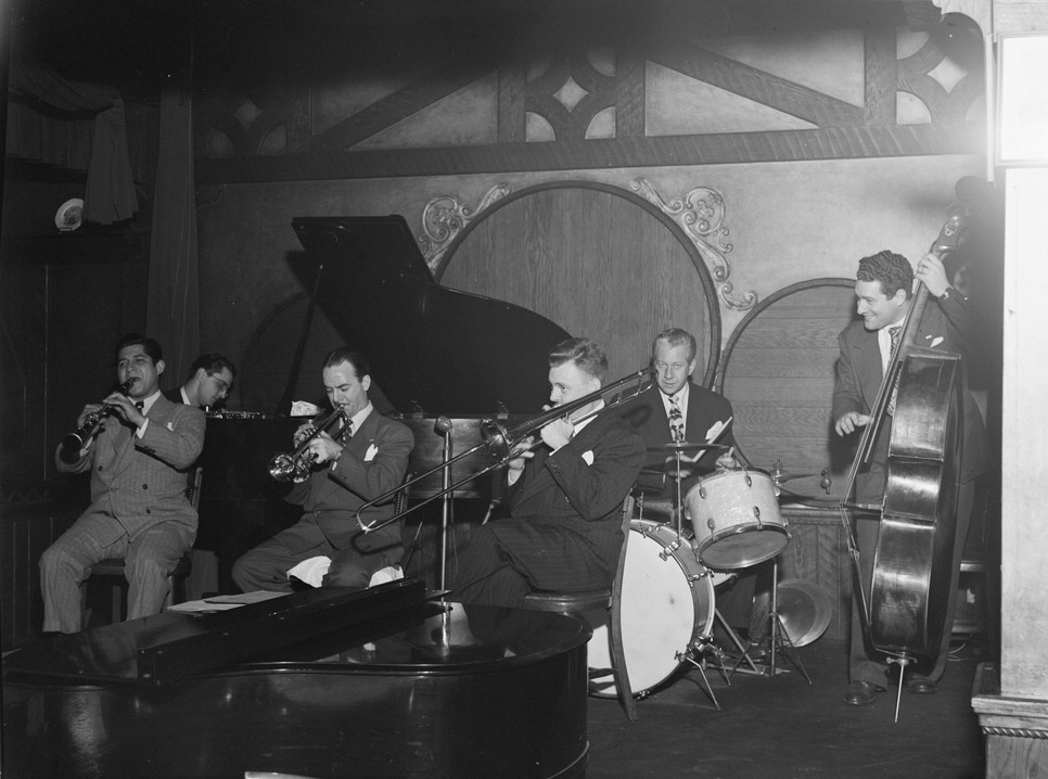 Portrait of Ernie Caceres, Bobby Hackett, Freddie Ohms, and George Wettling, Nick's (Tavern)(?), New York, N.Y., between 1946 and 1948. Photography by William P. Gottlieb